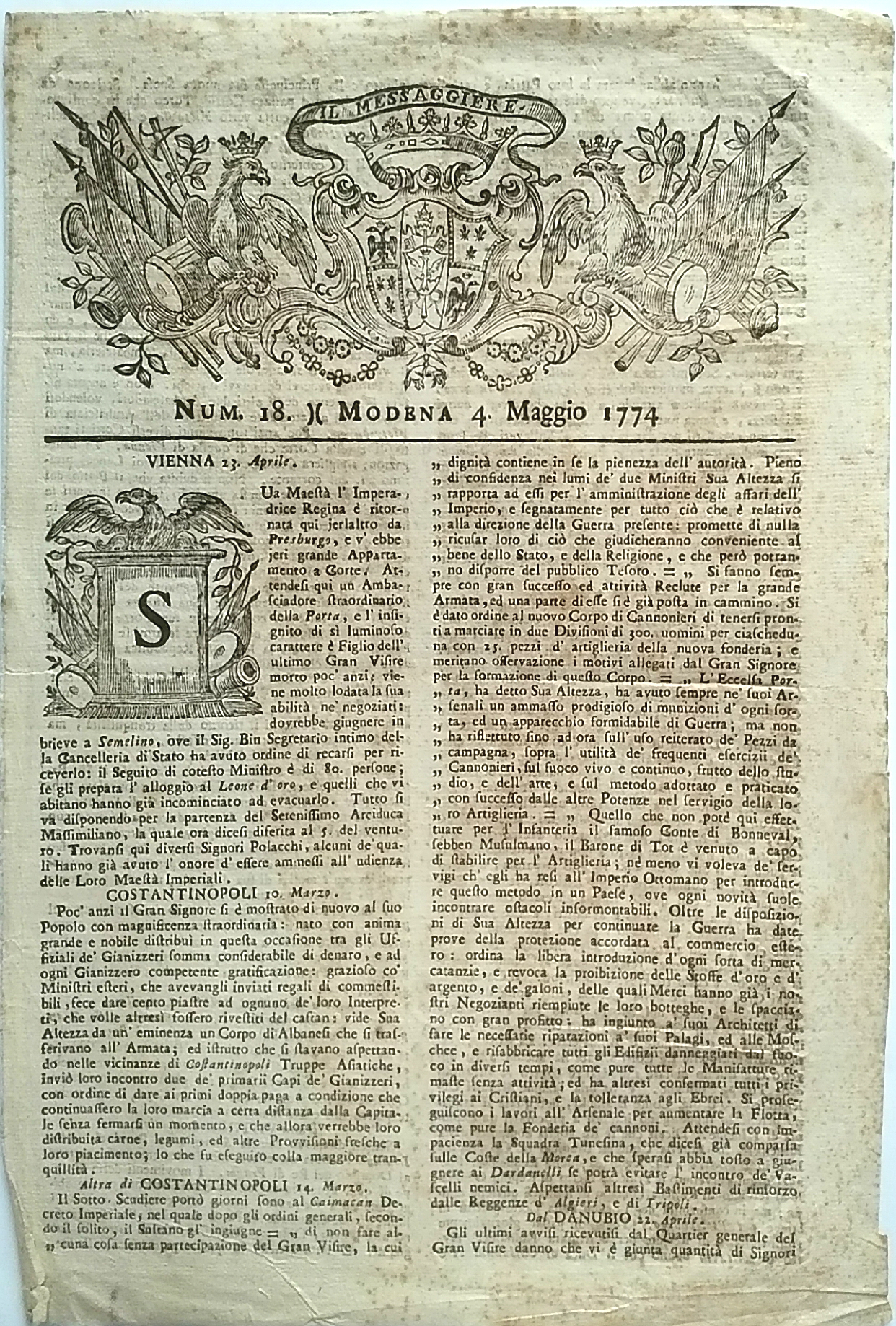 Il Messaggiere - newspaper published in Modena - number 18 dated 4 May 1774